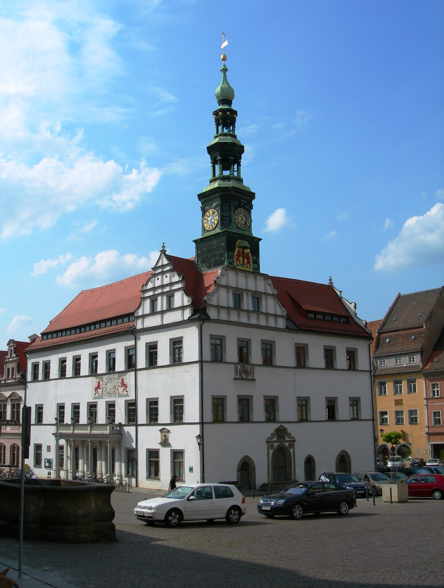 Pirna, Town-Hall.